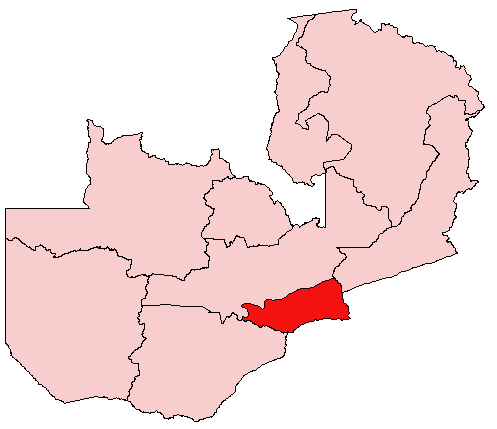 Map of Zambia showing Lusaka Province; created with the GIMP. Made by User:Acntx.